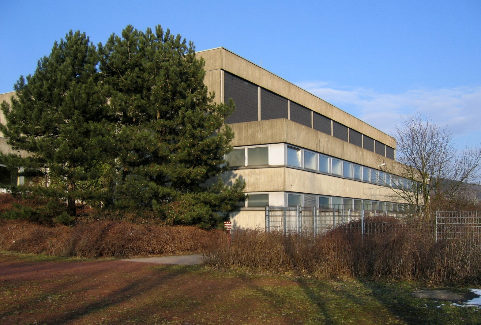 Description: Sporthalle "Hemberg" in Iserlohn Source: selbst fotografiert Date: 15. März 2006 Author: Bubo